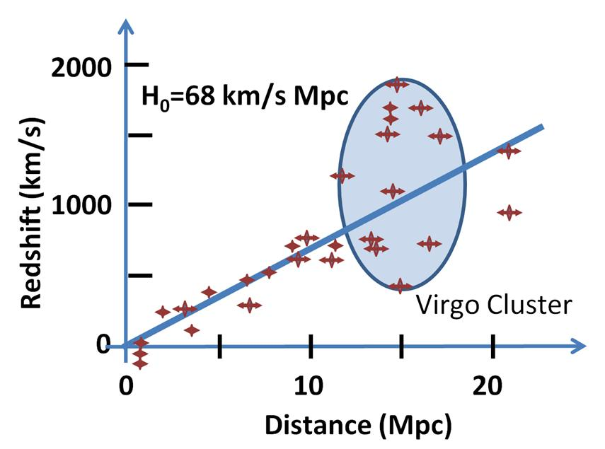 Scatter plot of fit of redshifts to Hubble's law. Patterned after